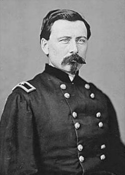 General Edward Winslow Hincks (1830–1894) was a career soldier who served as a brigadier general during the American Civil War, 1864 photograph